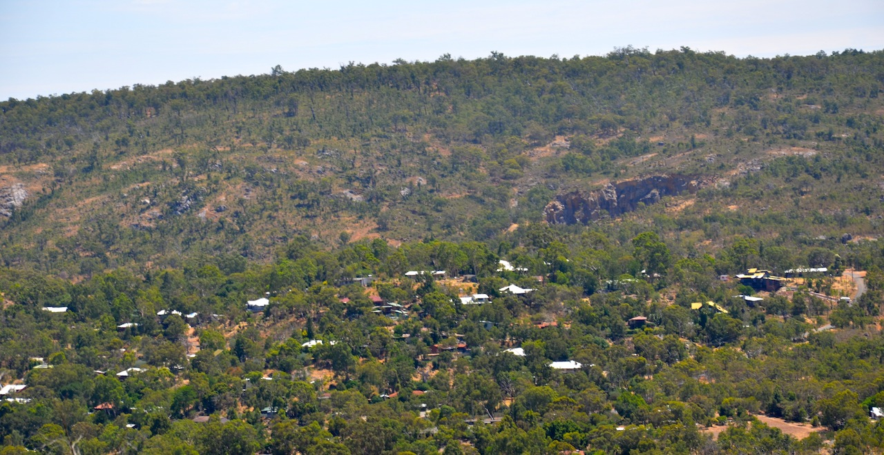 Boya, Western Australia and Greenmount Hill in January 2017